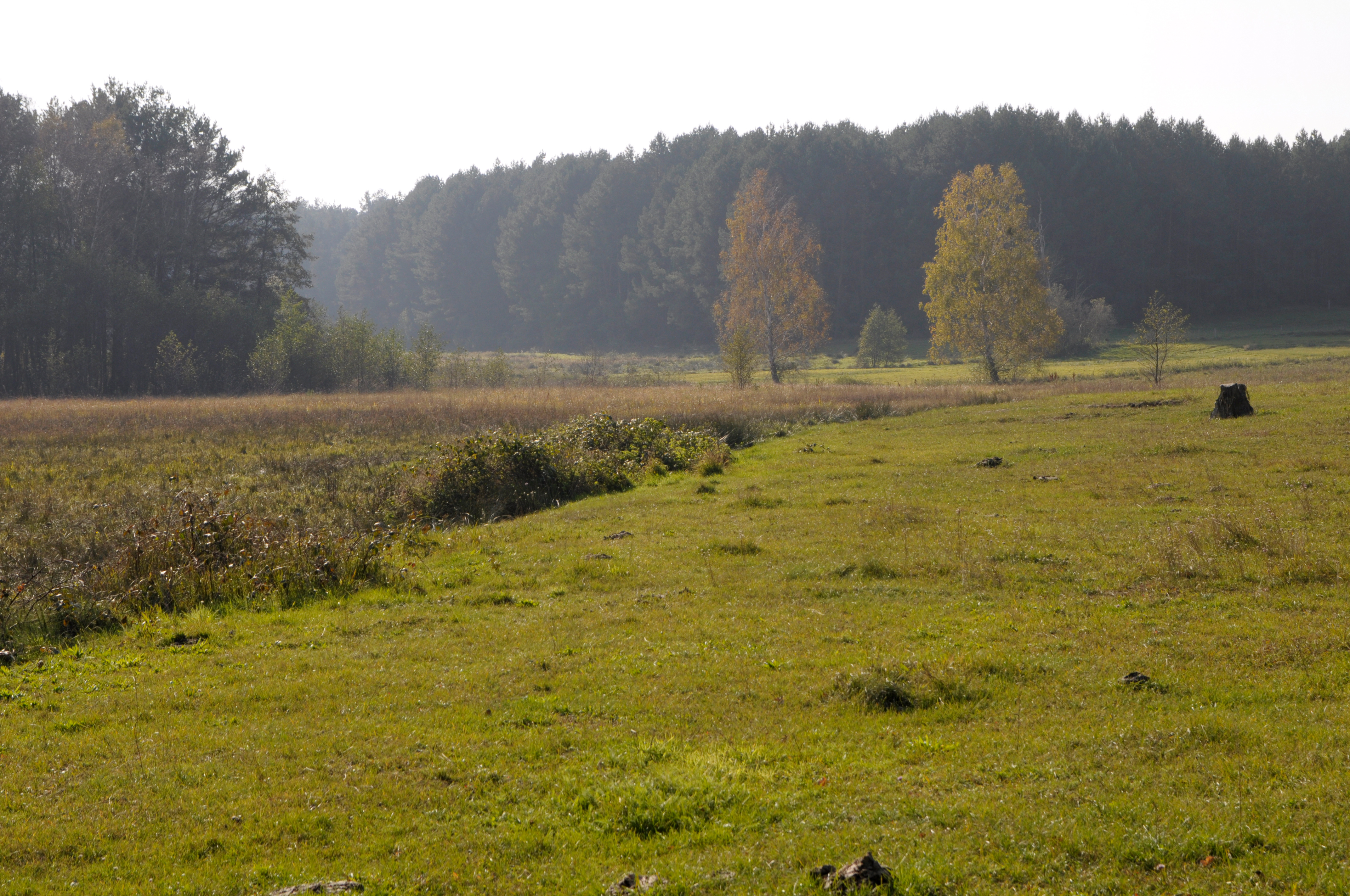 "Mühlenfließ-Sägebach" nature reserve in Dahme-Spreewald District of Brandenburg (Germany)